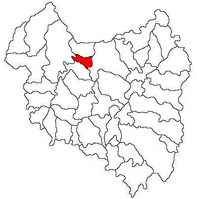 Locator map of Micfalău commune, Covasna County, Romania